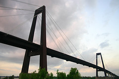 Nanette Wilson, Canon Digital Rebel EOS, November 10, 2006